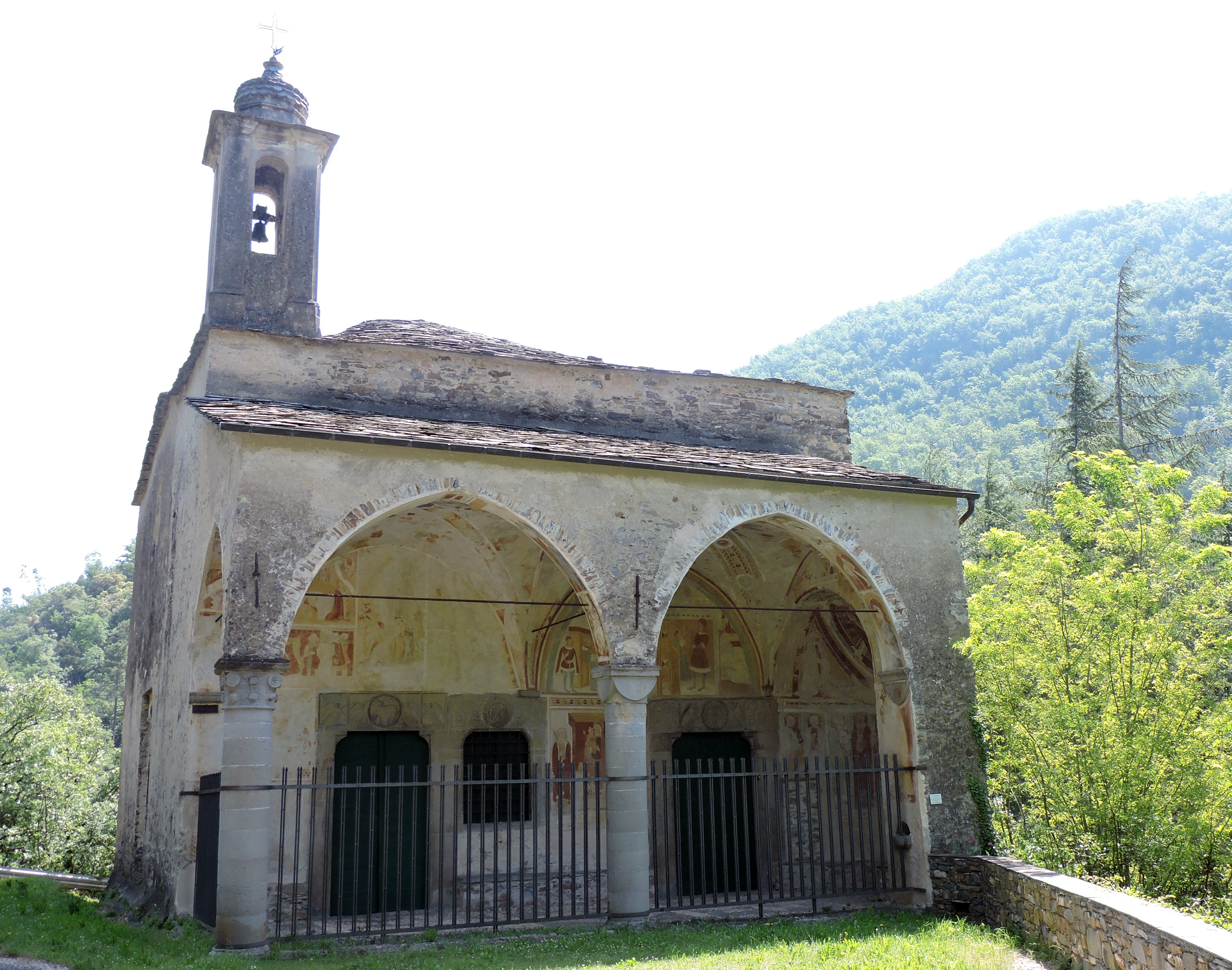 San Pantaleo church (Ranzo, IM, Italy): front view